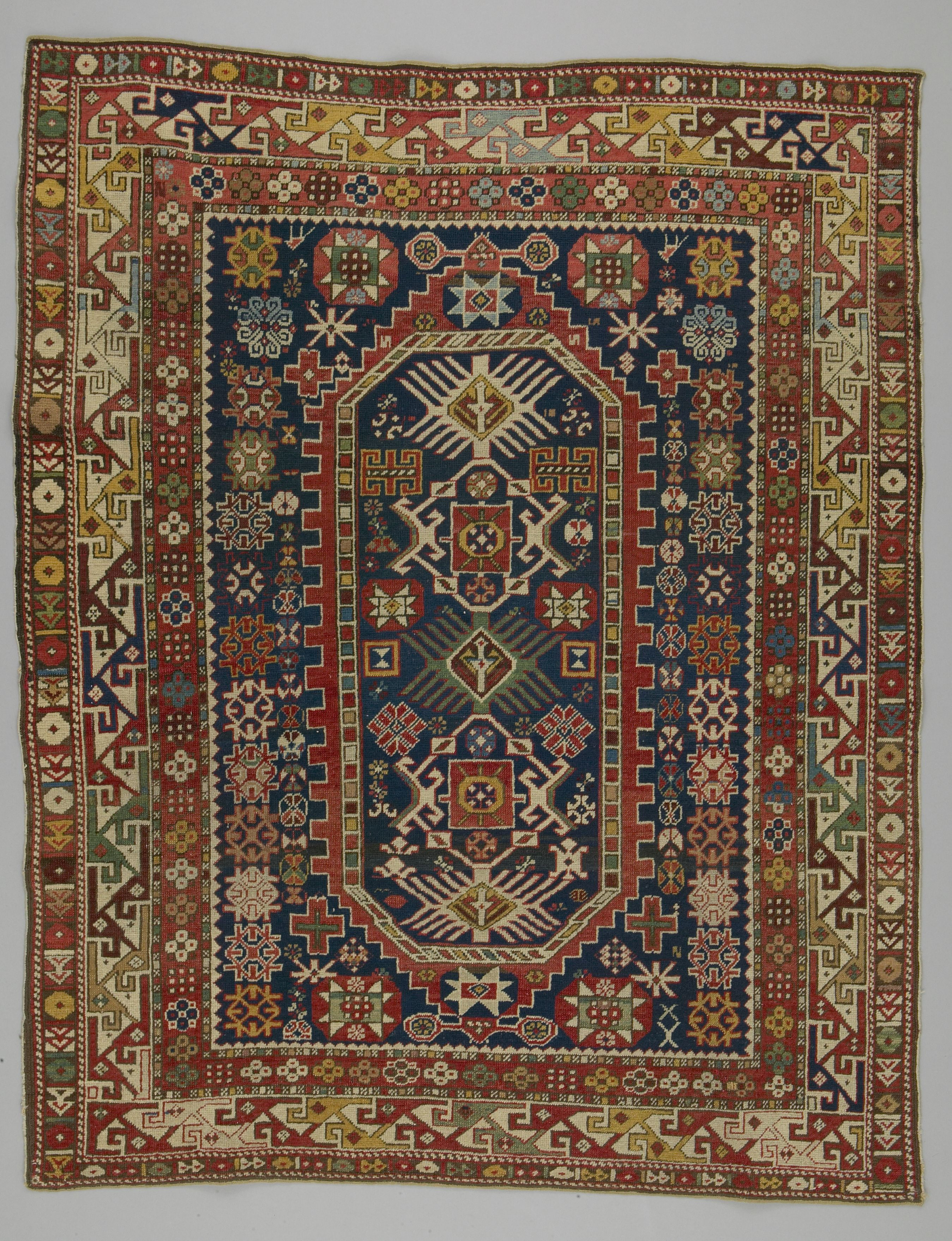 Bijo rug, stored in Textile Museum of Canada